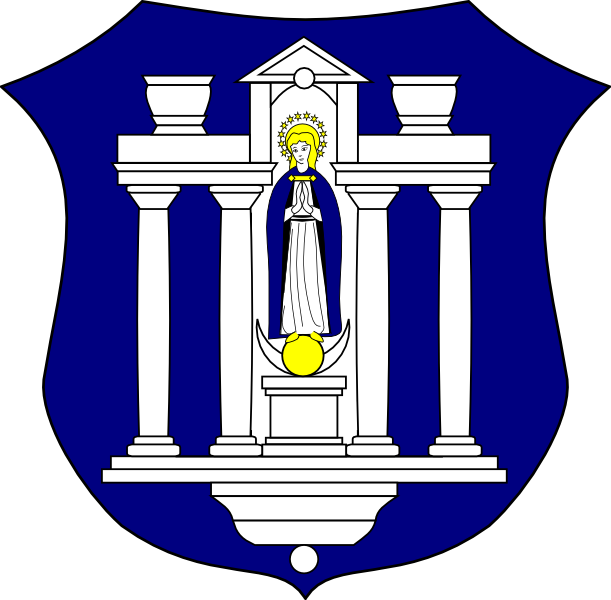 Coat of arms (shield only) of János cardinal Simor, bishop of Győr, Hungary (1857 - 1867), archbishop of Esztergom, Hungary (1867 - 1891), based on sculpture in Esztergom